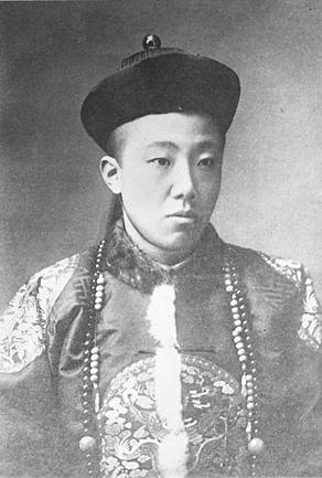 Photograph of Prince Zaitao (1887-1970) in Court Robe